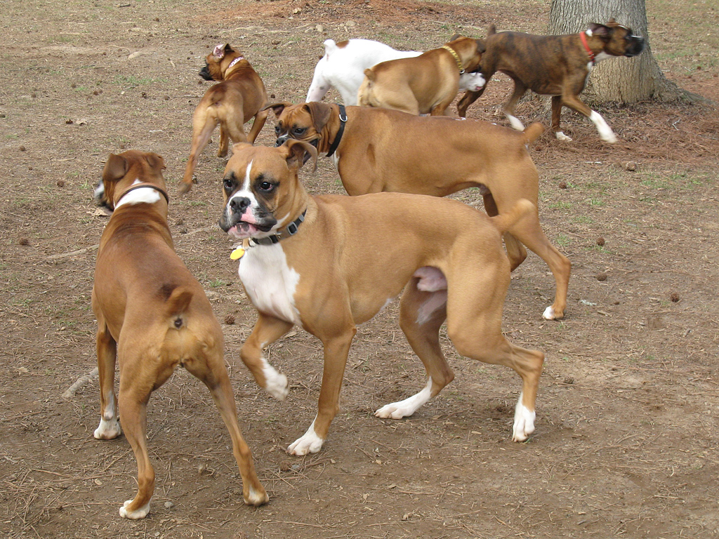 A group of Boxers at the January 2007 Atlanta Boxer Meetup at Royal Paws Dog Park in Alpharetta.